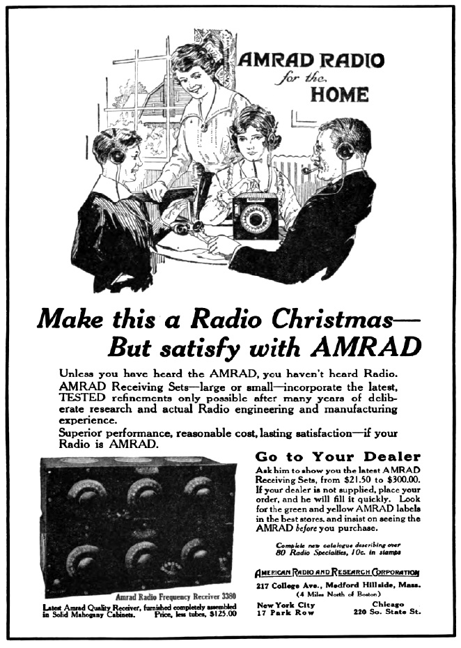 Advertisement for radio receiving equipment sold by the American Radio and Research Corporation (AMRAD) of Medford Hillside, Massachusetts.